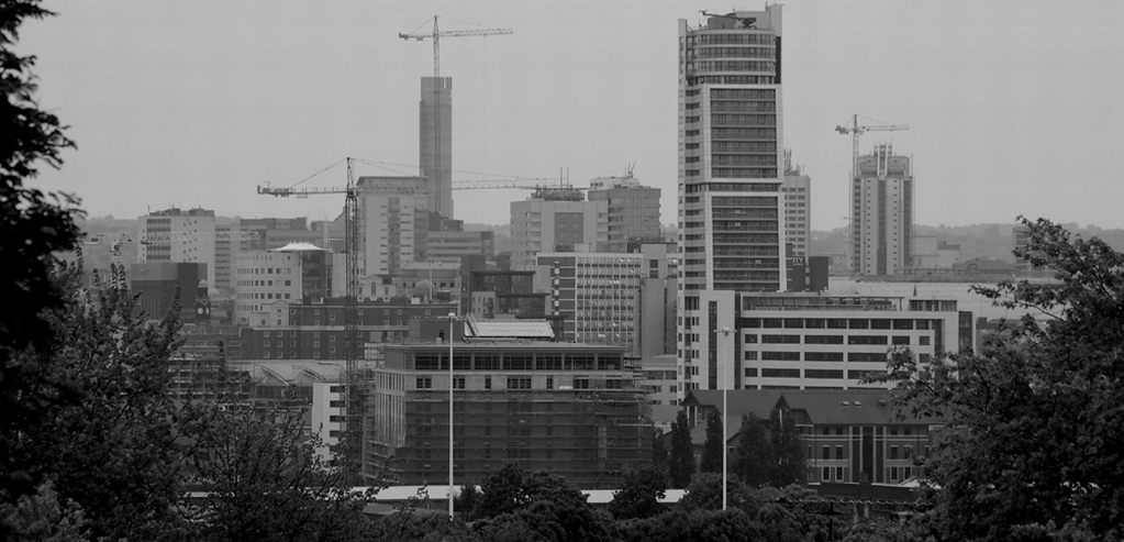 Leeds central skyline This is my own photo taken by myself, released under GFDL cc-by-sa